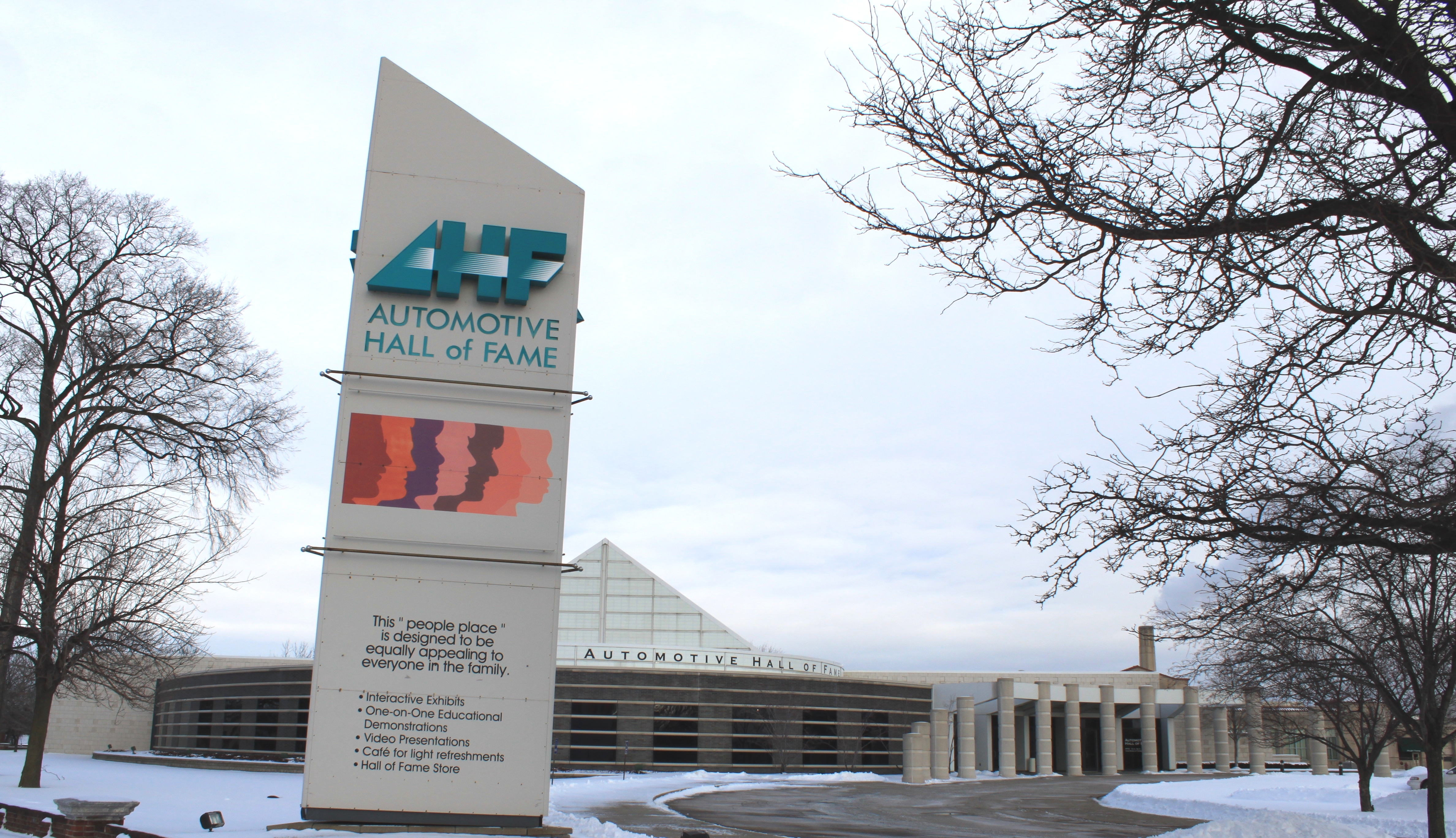 Automotive Hall of Fame, 21400 Oakwood Boulevard, Dearborn, Michigan